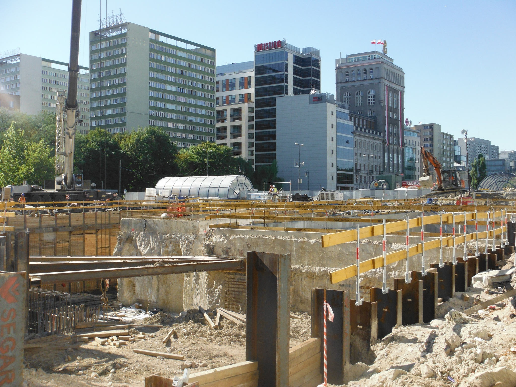 Świętokrzyska metro station (under construction) in Warsaw (3rd of August 2013).